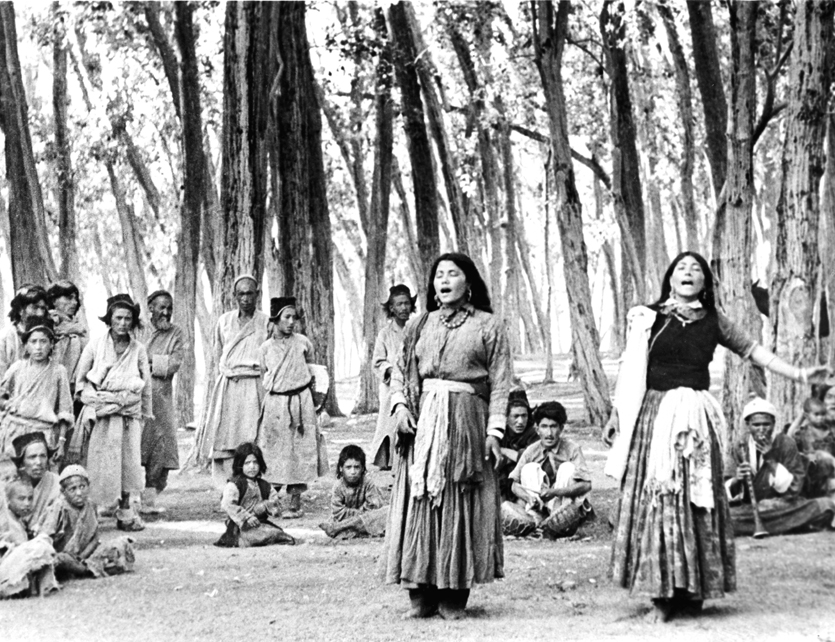 Ladakhi girls dancing at Nemu Camp, 18 miles before Leh. They have visited Punjab and hence their style of dress.